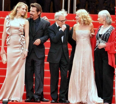 Cast and director of the film "You're going to meet a tall dark stranger" at the Cannes film festival. Left to right : Lucy Punch, Josh Brolin, Woody Allen, Naomi Watts and Gemma Jones